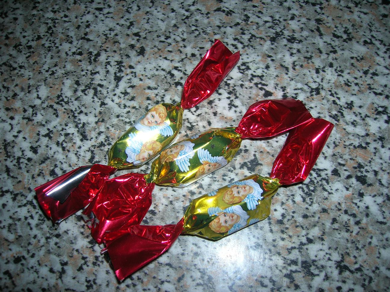 Hungarian "Szaloncukor" -- sweets as Christmas-tree-decoration